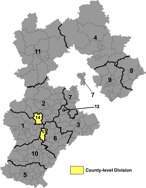 Map of prefectures of Hebei Province